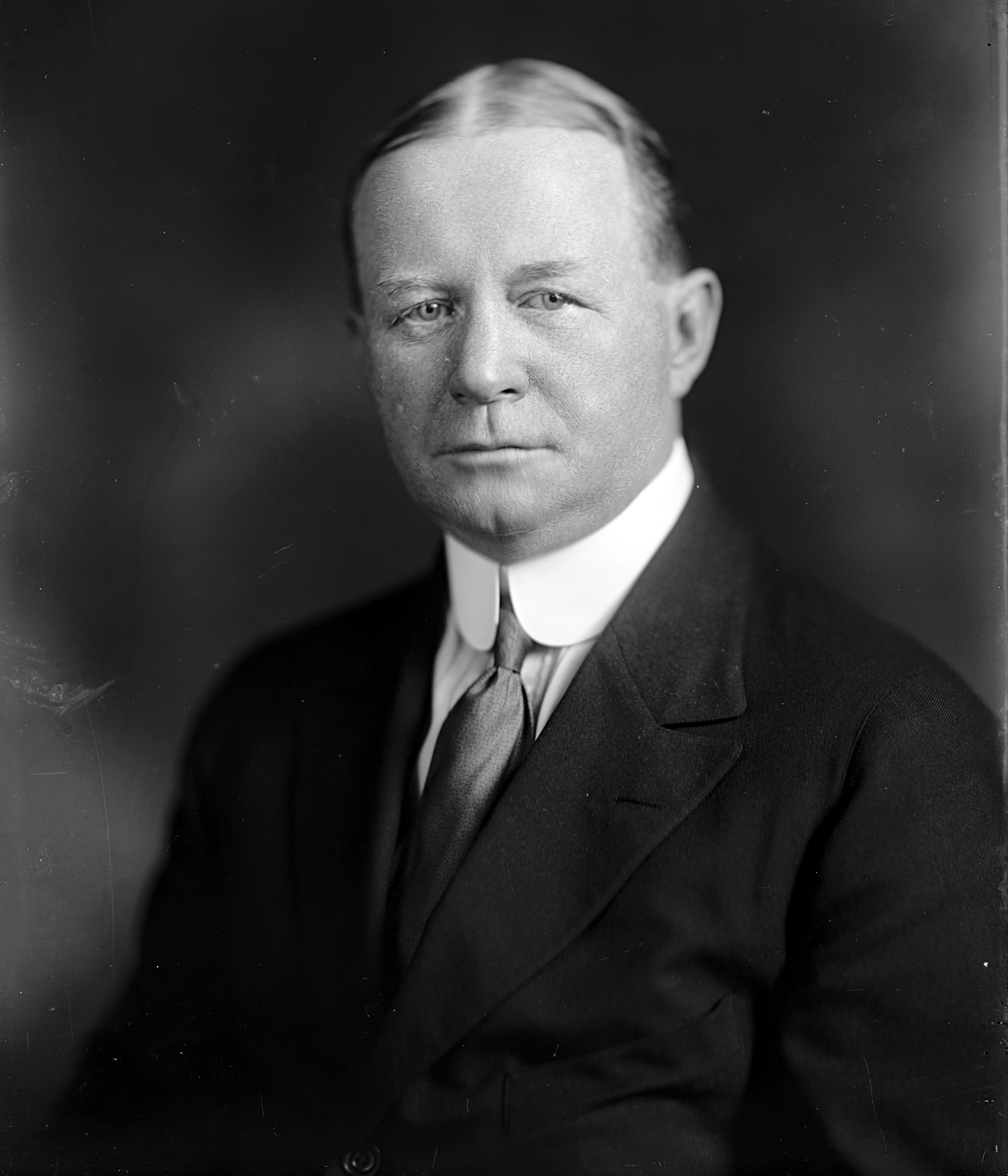 John M. Morin, US Representative from Pennsylvania